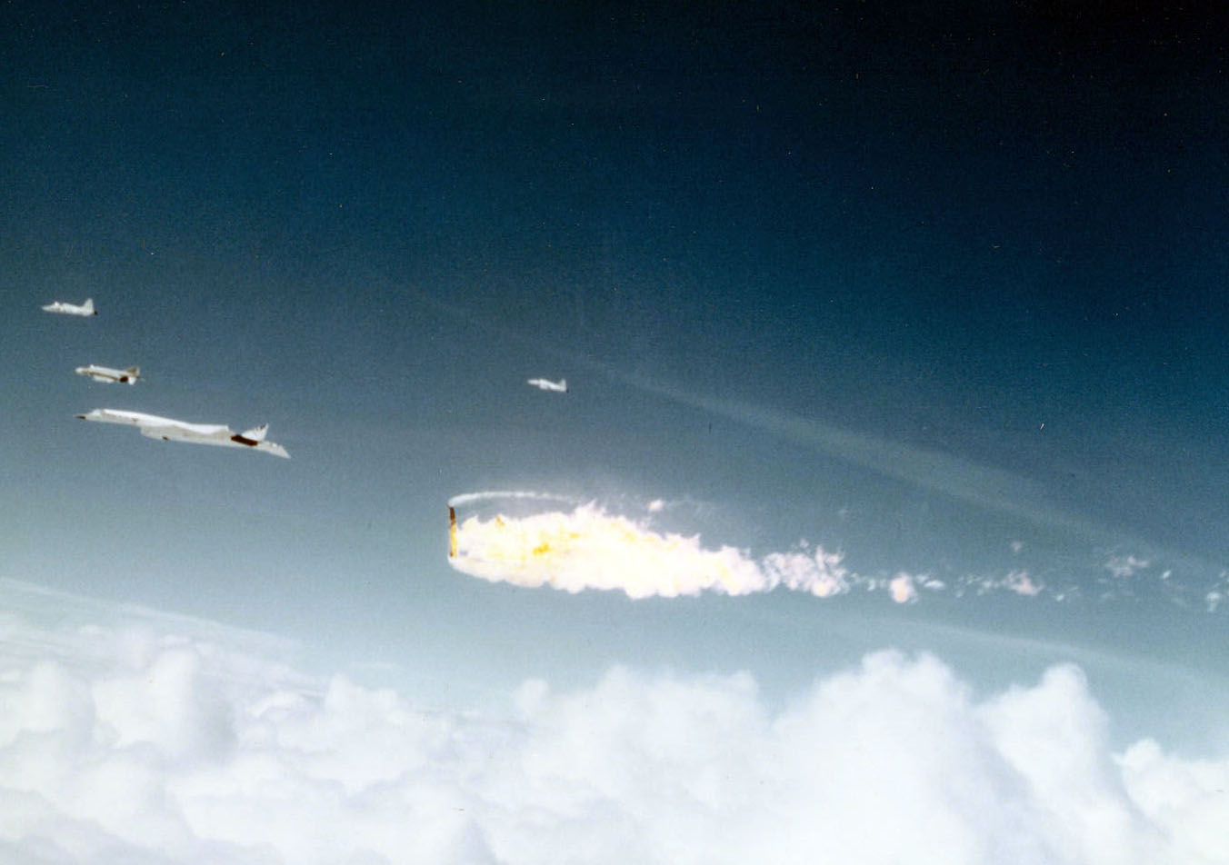 The North American XB-70A Valkyrie (s/n 62-0207) after the collision, 8 June 1966. Other aircraft are: Northrop T-38A-15-NO (s/n 59-1601), McDonnell F-4B-15-MC (BuNo 150993), Lockheed F-104A-20-LO (aka F-104N) (s/n 56-813, exploding), and Northrop YF-5A-NO (s/n 59-4989).